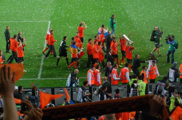 2009 UEFA Cup Final